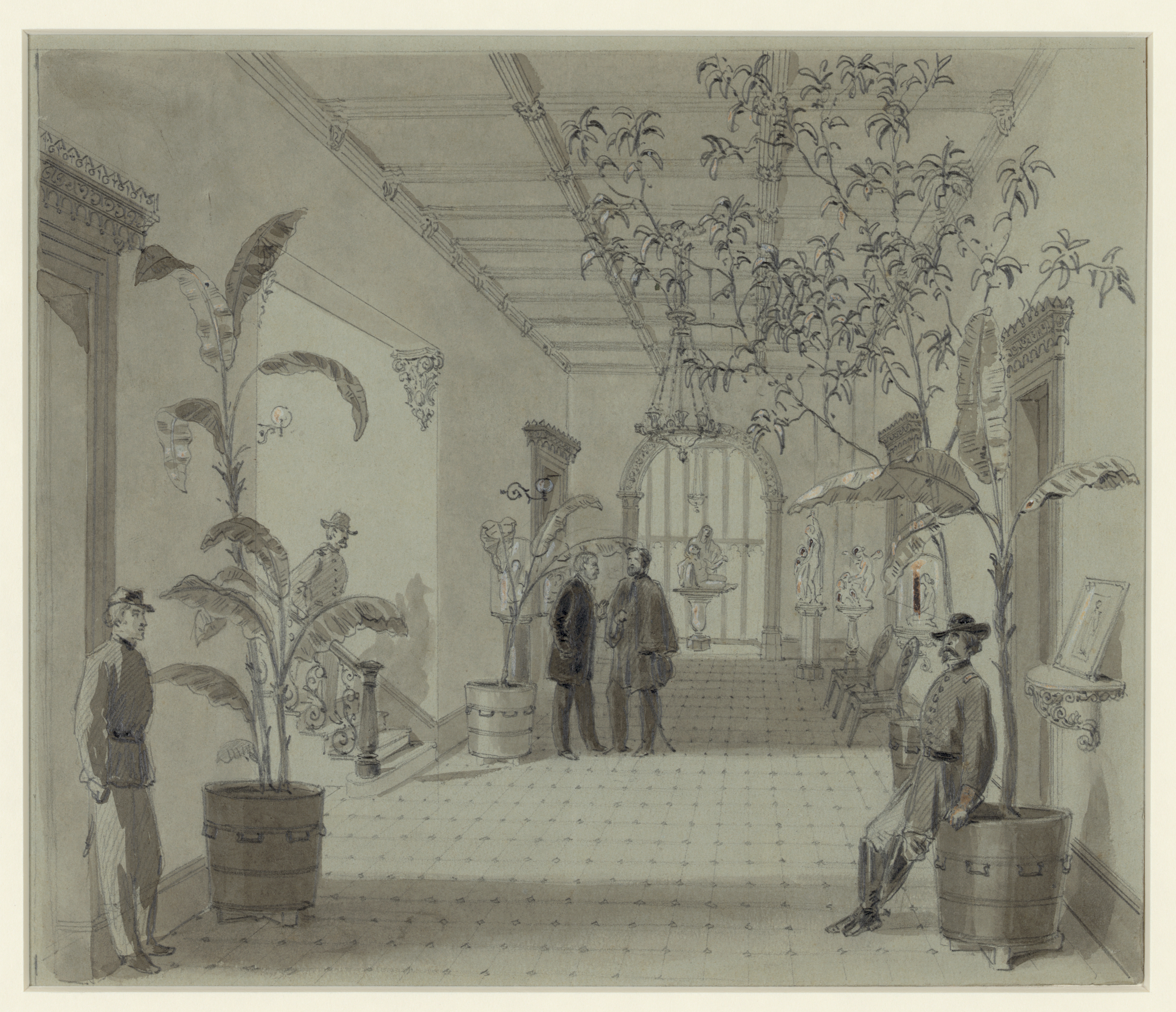 Entrance Hall of Mr Chas. Green's house, Savannah Ga, now occupied as Head Quarters by Gen Sherman" by William Waud, This is his original illustration, which was adapted into an engraving for Harper's Weekly's January 21, 1865 issue. The spelling given is based on Waud's original note for the name of the work: I kept the restoration light; only removing the most obvious damage, and adjusting the colours slightly.. I'm pretty sure, though, that the white he used stained brown with age; but I thought that might be a step too far, so refrained. Paper colour is educated guesswork - the Library of Congress scans of Waud's work (this one is available at [link] ) vary between greenish grey and blueish grey, and none of them have a colour box, so I took an educated guess. Originally produced for my deviantArt account, where you can get prints. The restoration was fairly light, so, while attribution to me is very very strongly encouraged, I won't push any legal requirement for it.